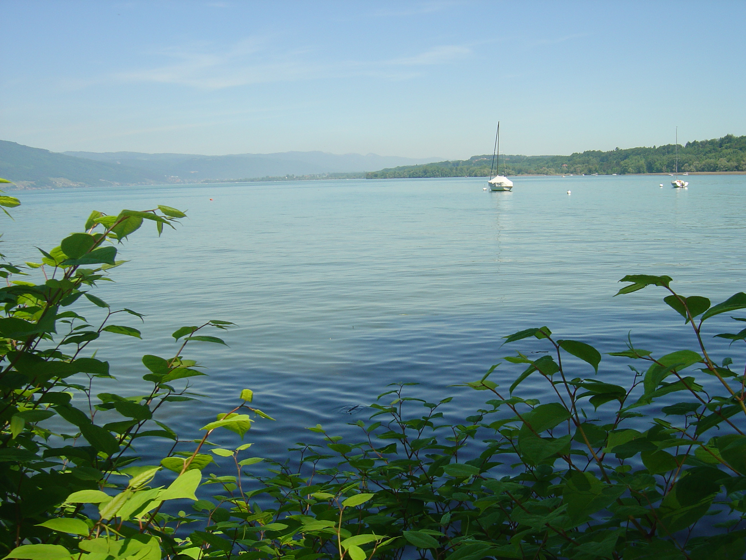 view from Lüscherz to the north east part of Lake Biel